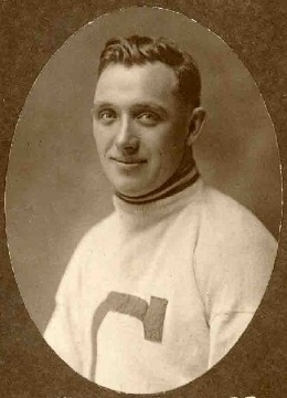 Albert McCaffrey of the Toronto Granites hockey club in the 1921–1922 season.